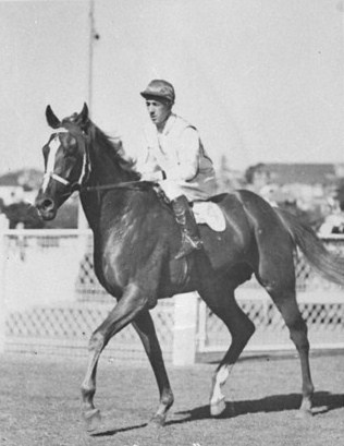 Ajax (2) Ch. h. 1934, by Heroic from Medmenham (IRE) by Prince Galahad (GB). Winner of 33 principal races.